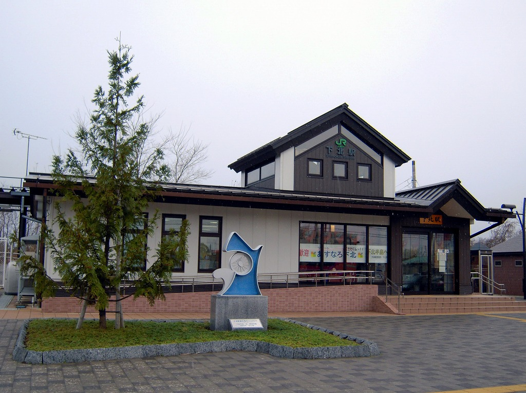 JR East Ominato line Shimokita station (Mutsu,Aomori)